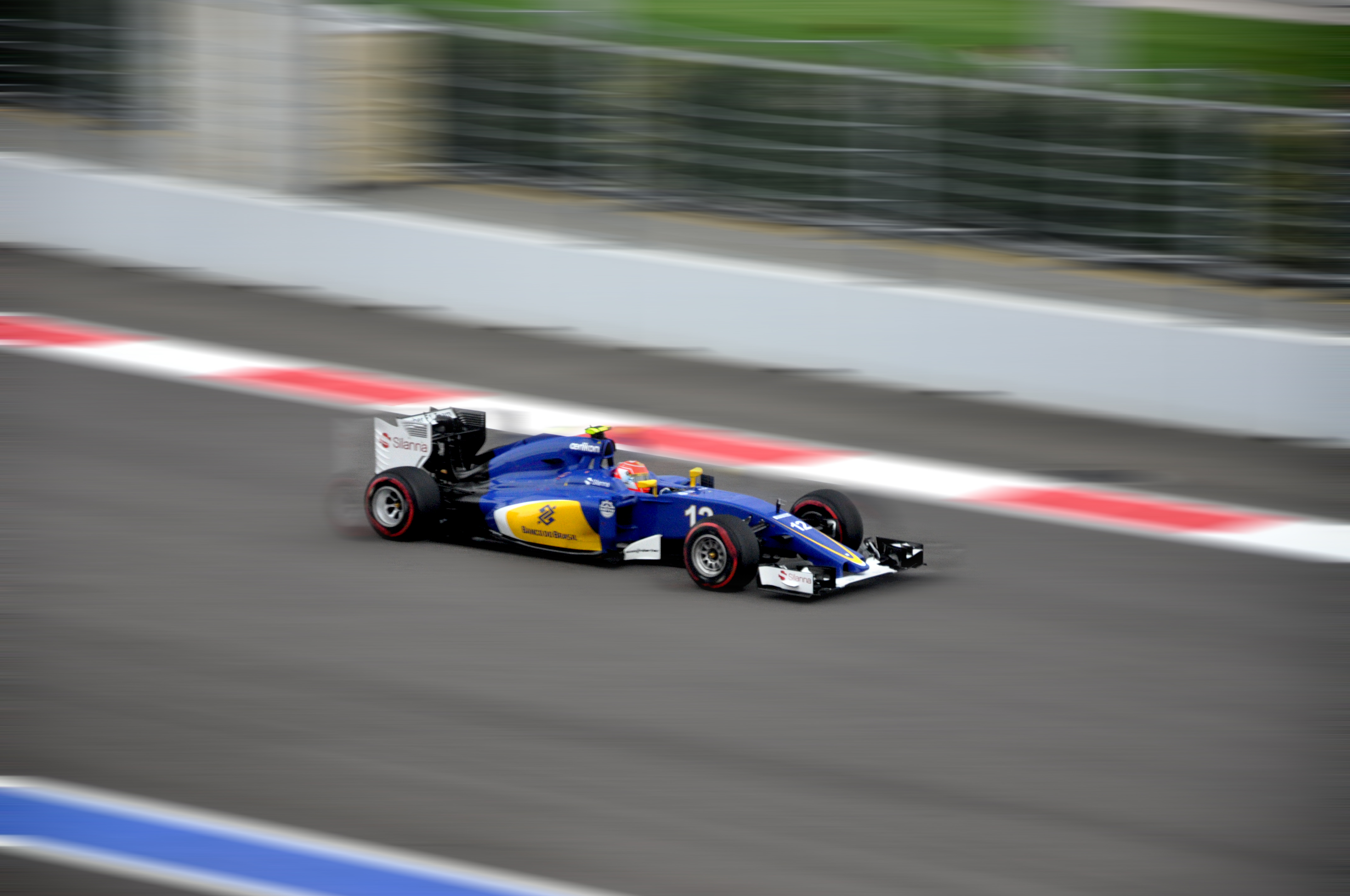 Felipe Nasr at the 2015 Russian Grand Prix